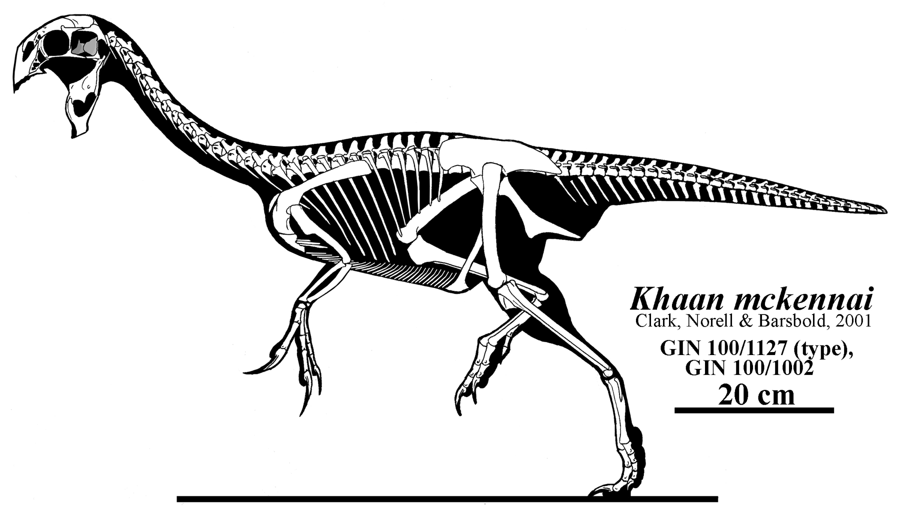 Skeletal reconstruction of Khaan mckennai